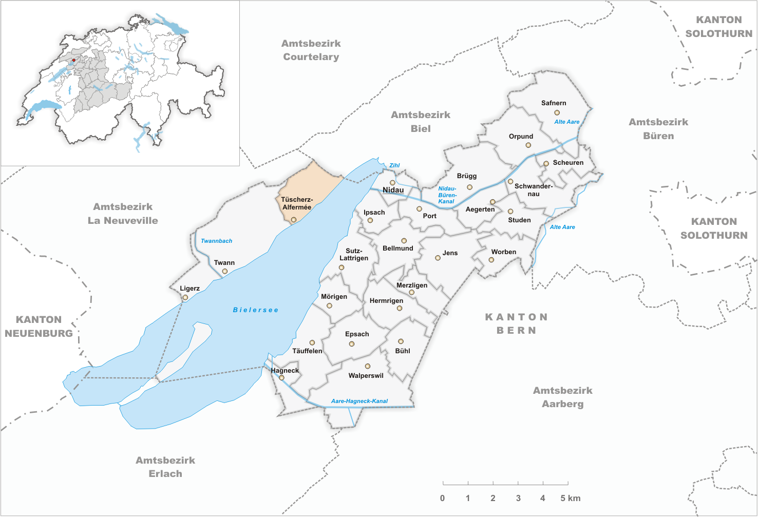 Municipality Tüscherz-Alfermée